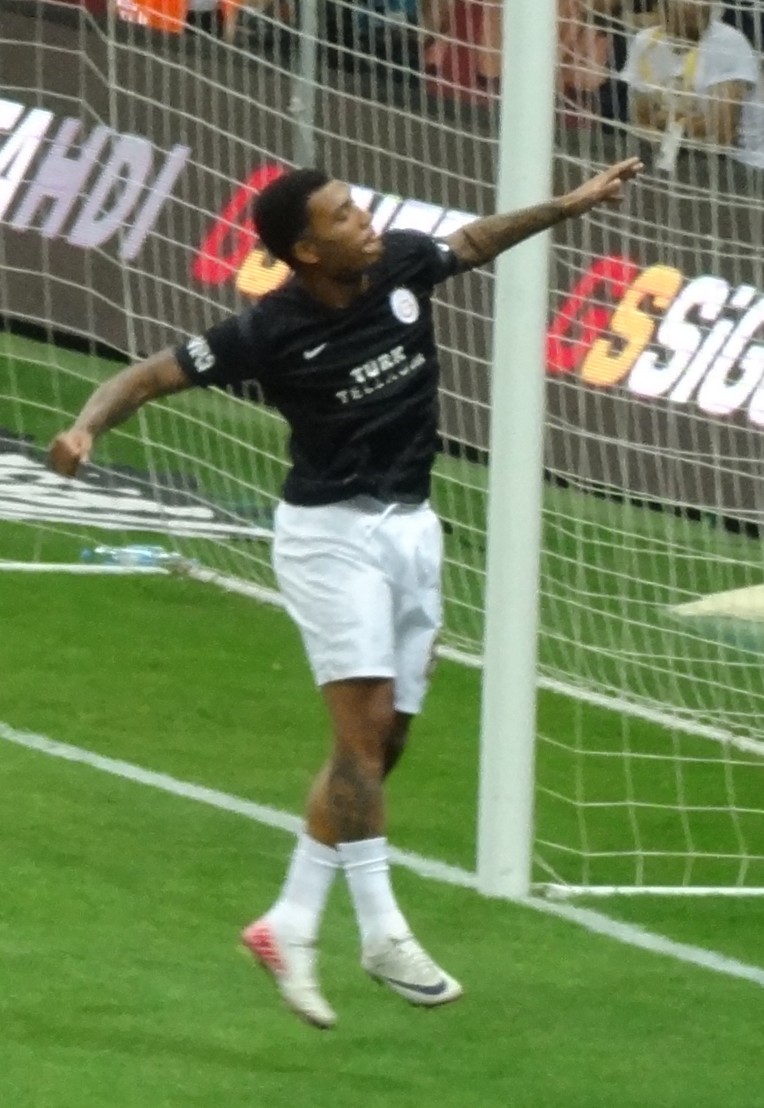 kazım richards